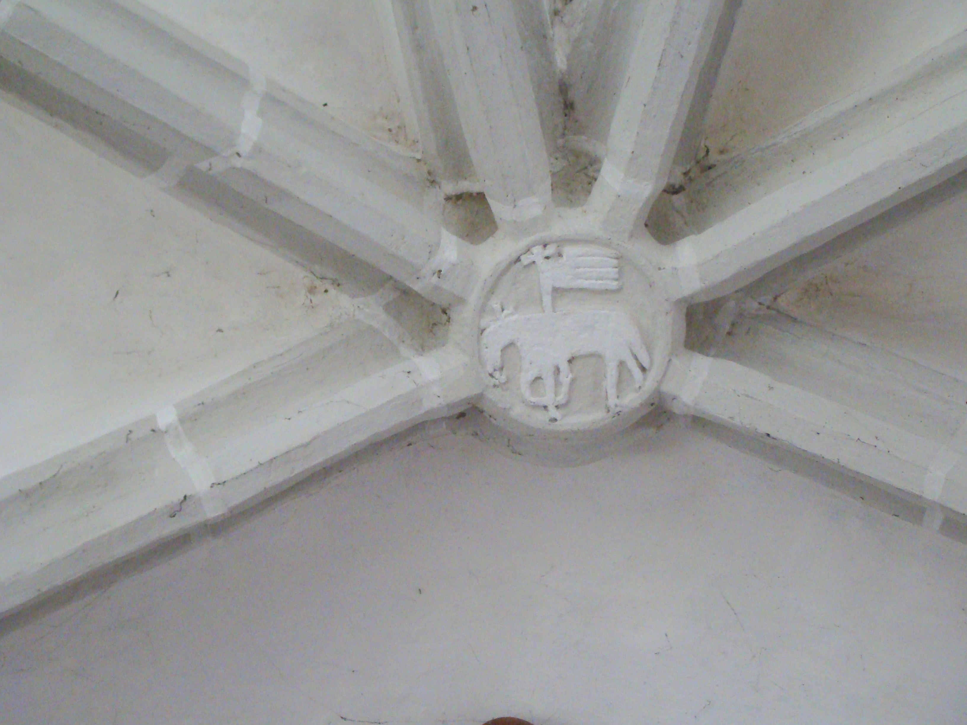 Reformed church in Albești, Mureș county, Romania